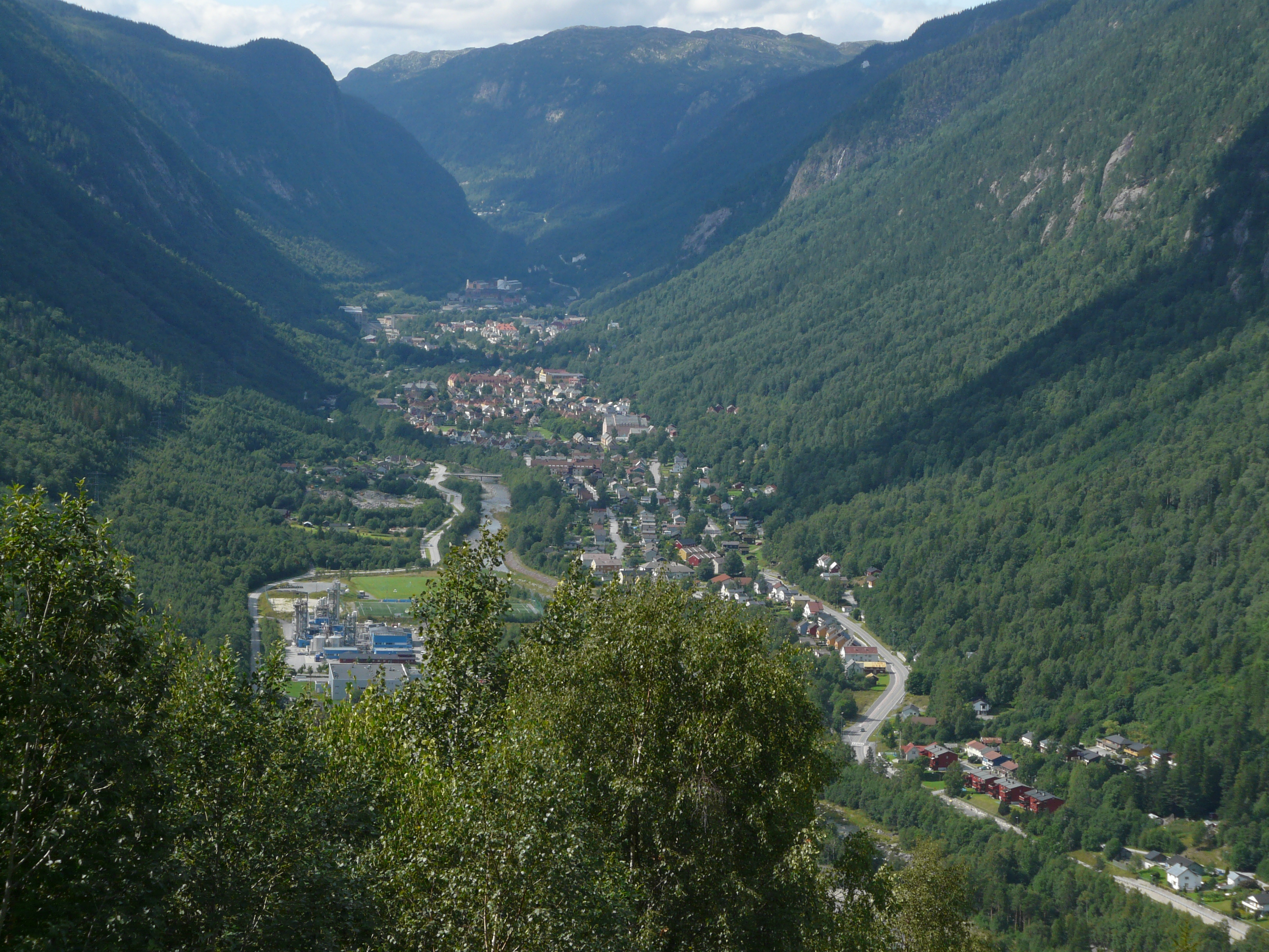 Vieuw Rjukan